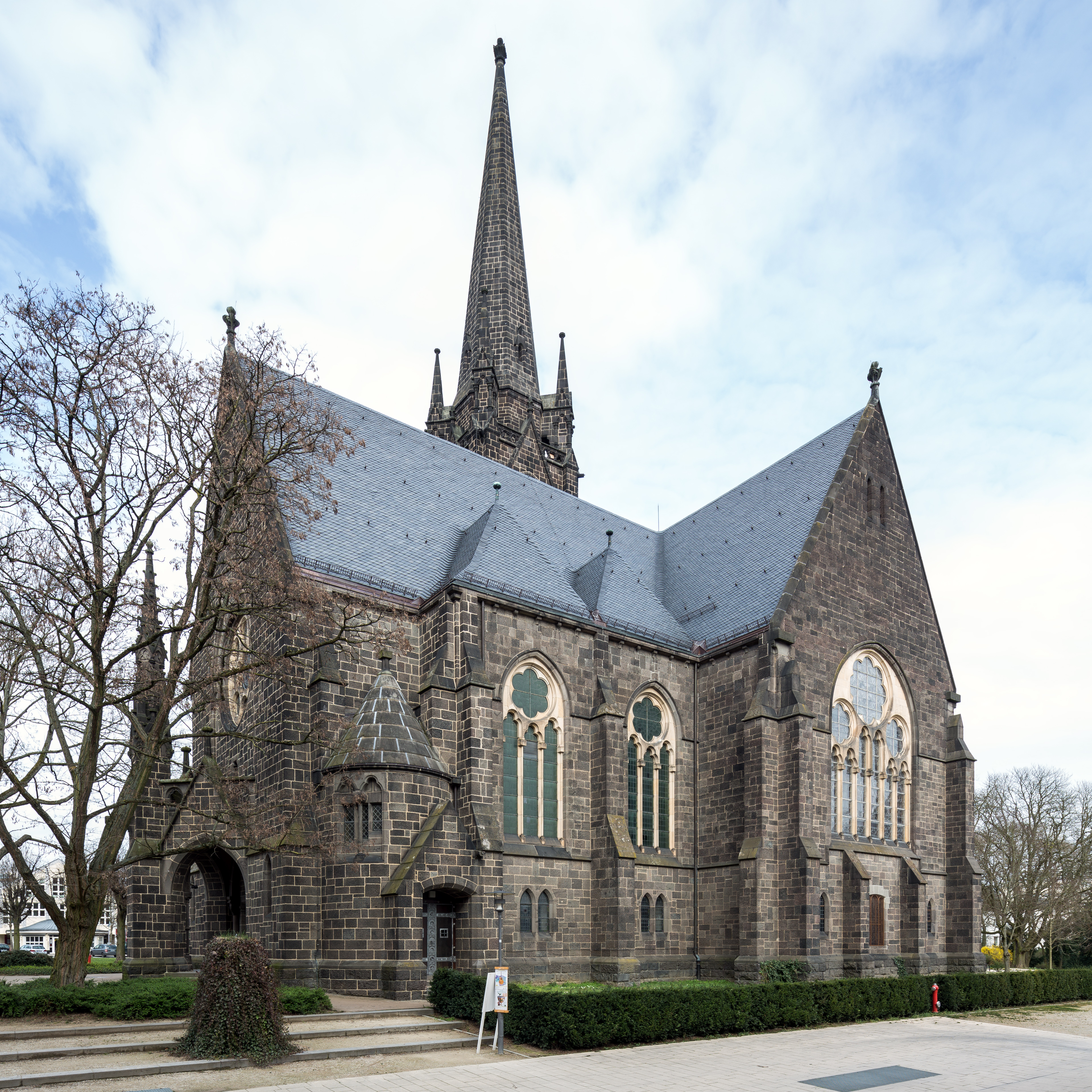 Bad Nauheim: Dankeskirche (Church of Thank) as seen from the southwest